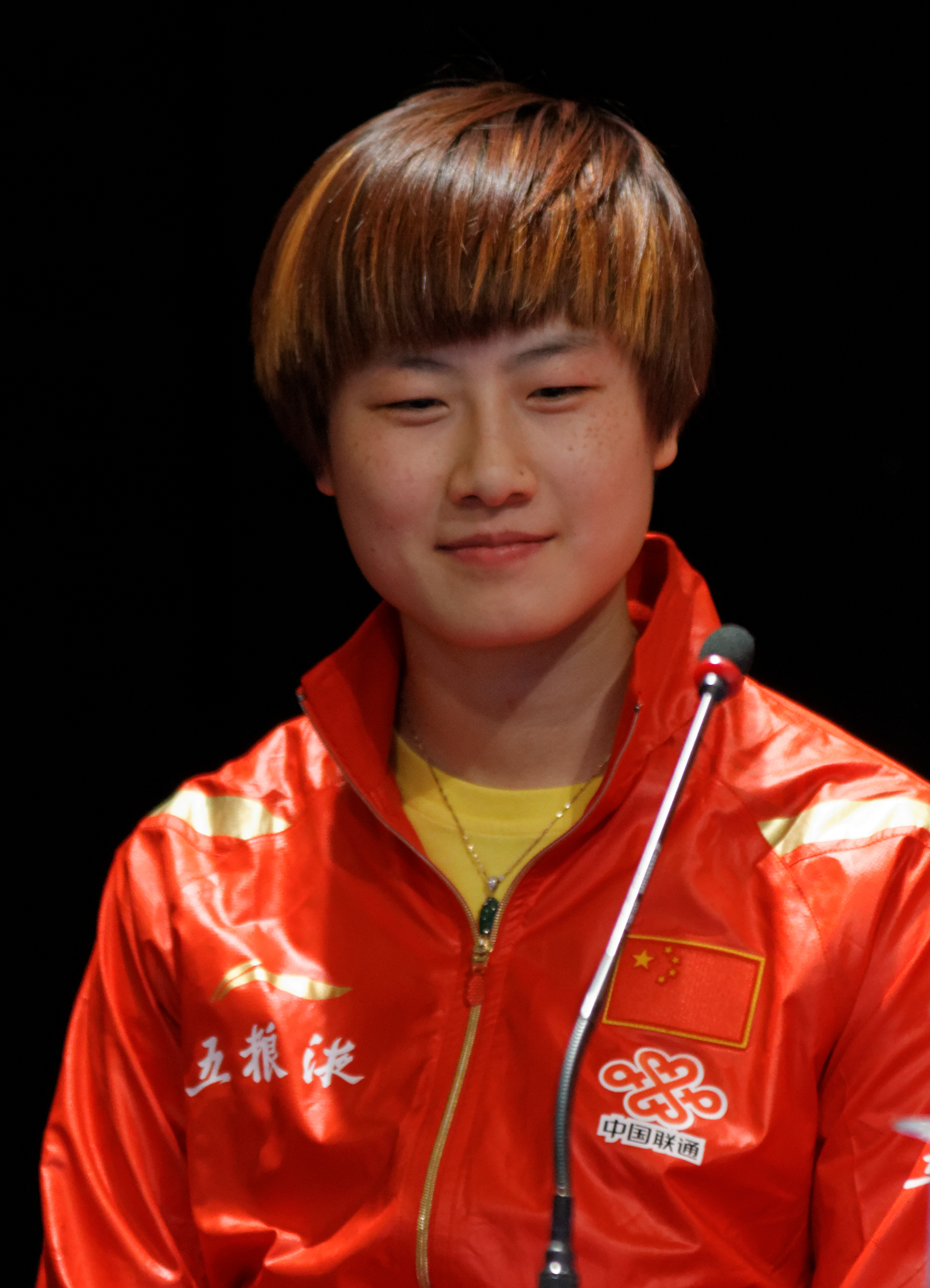 Championnats du monde de tennis de table, Paris. Conférence de presse et tirage au sort.